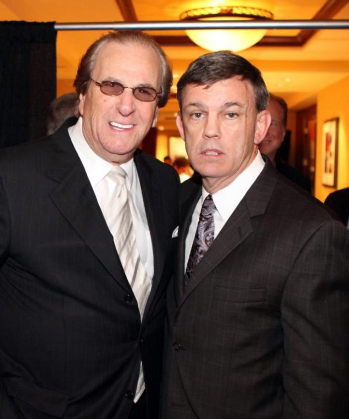 Danny Aiello and Teddy Atlas, during Theodore Atlas Foundation's 15th Annual Teddy Dinner at the Hilton Garden Inn in Staten Island, New York City.